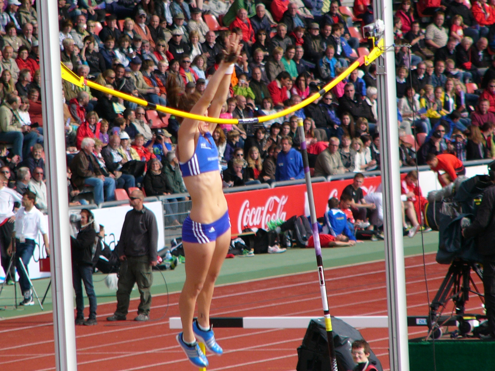 Kristina Gadschiew at the 2011 German Athletics Championships in Kassel